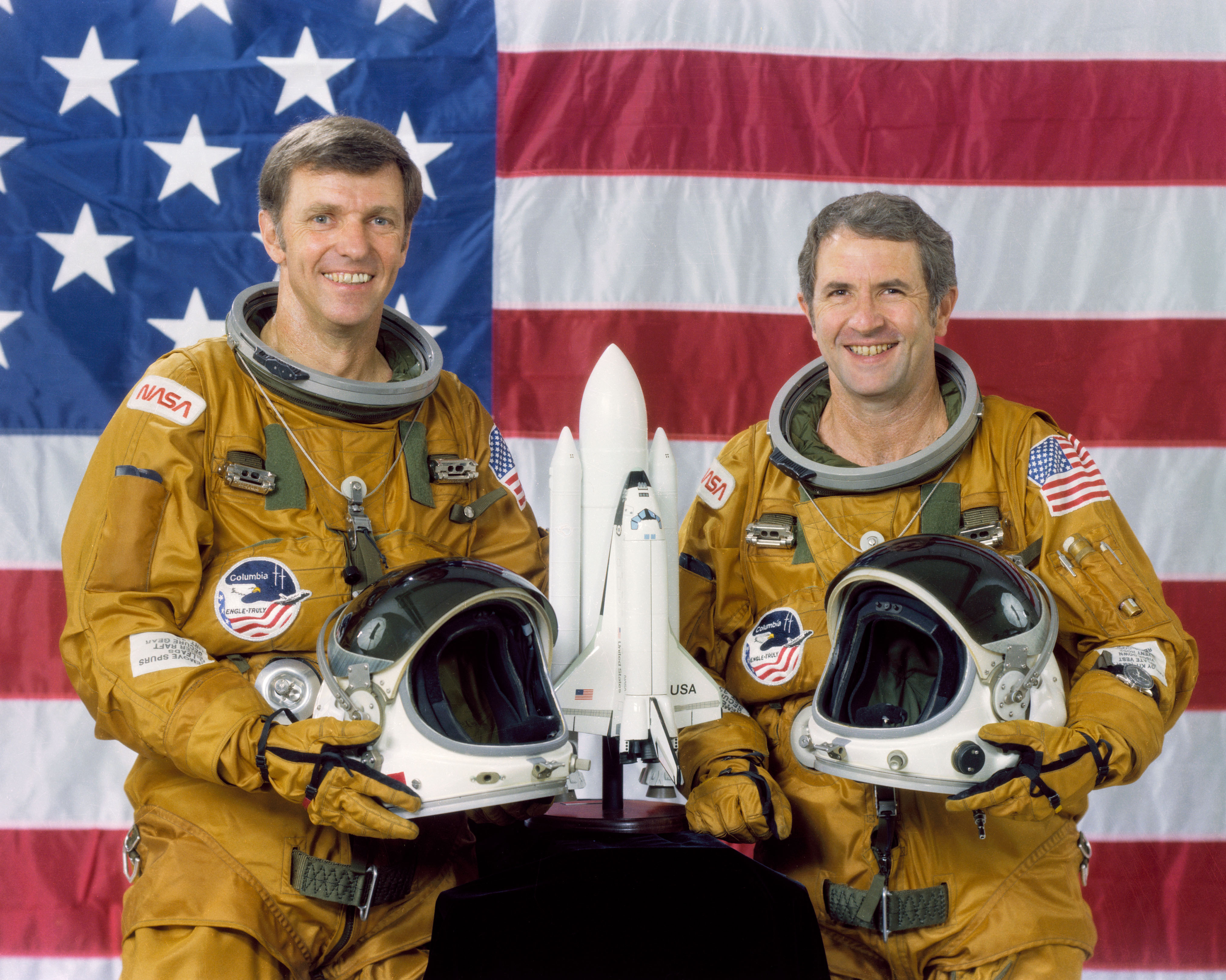 Official portrait of STS-2 crewmembers Joe H. Engle (commander), left, and Richard H. Truly (pilot) posing in ejection escape suits (EES) with a model of the space shuttle.